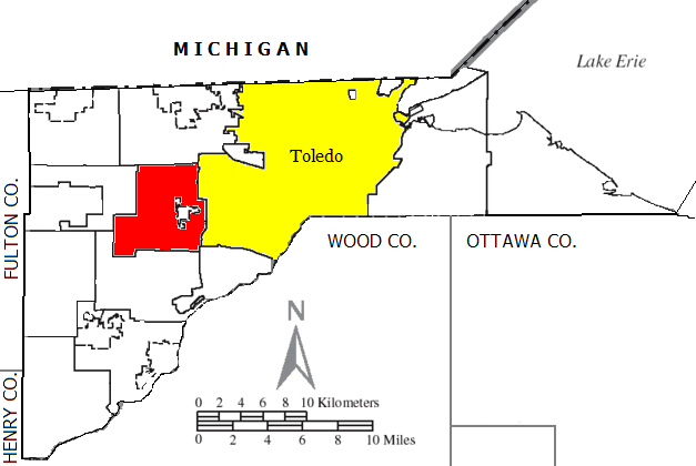 Made by the US Census and modified by myself